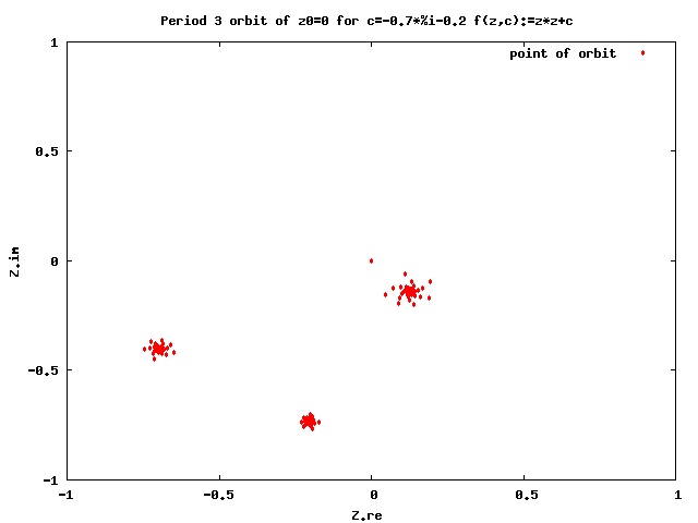 critical orbit. Here one can see that point z=0 tends to 3 point attracting cycle.